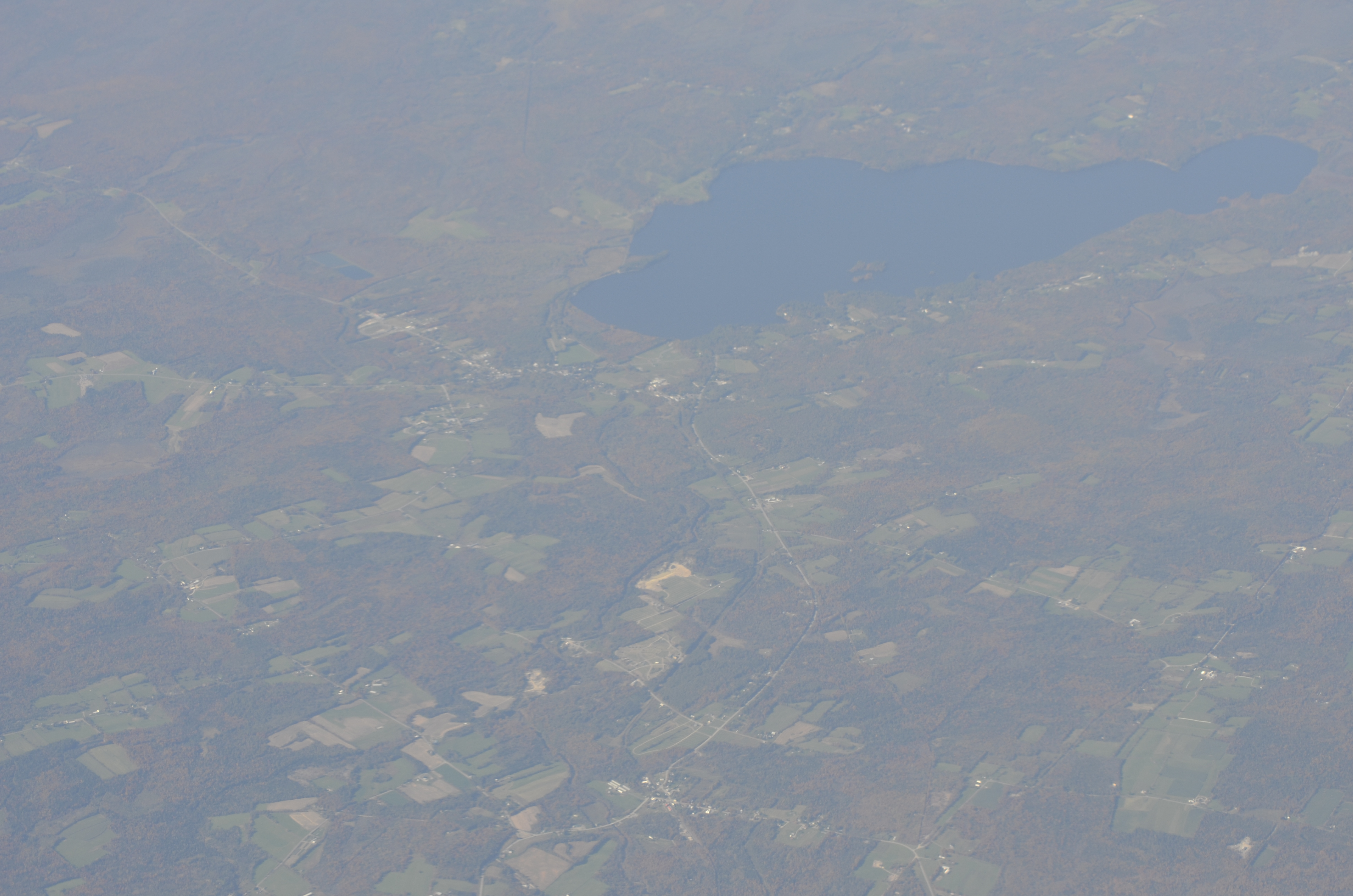 Unity Pond (Lake Winnecook), aerial photo taken from Lufthansa flight 418, looking north